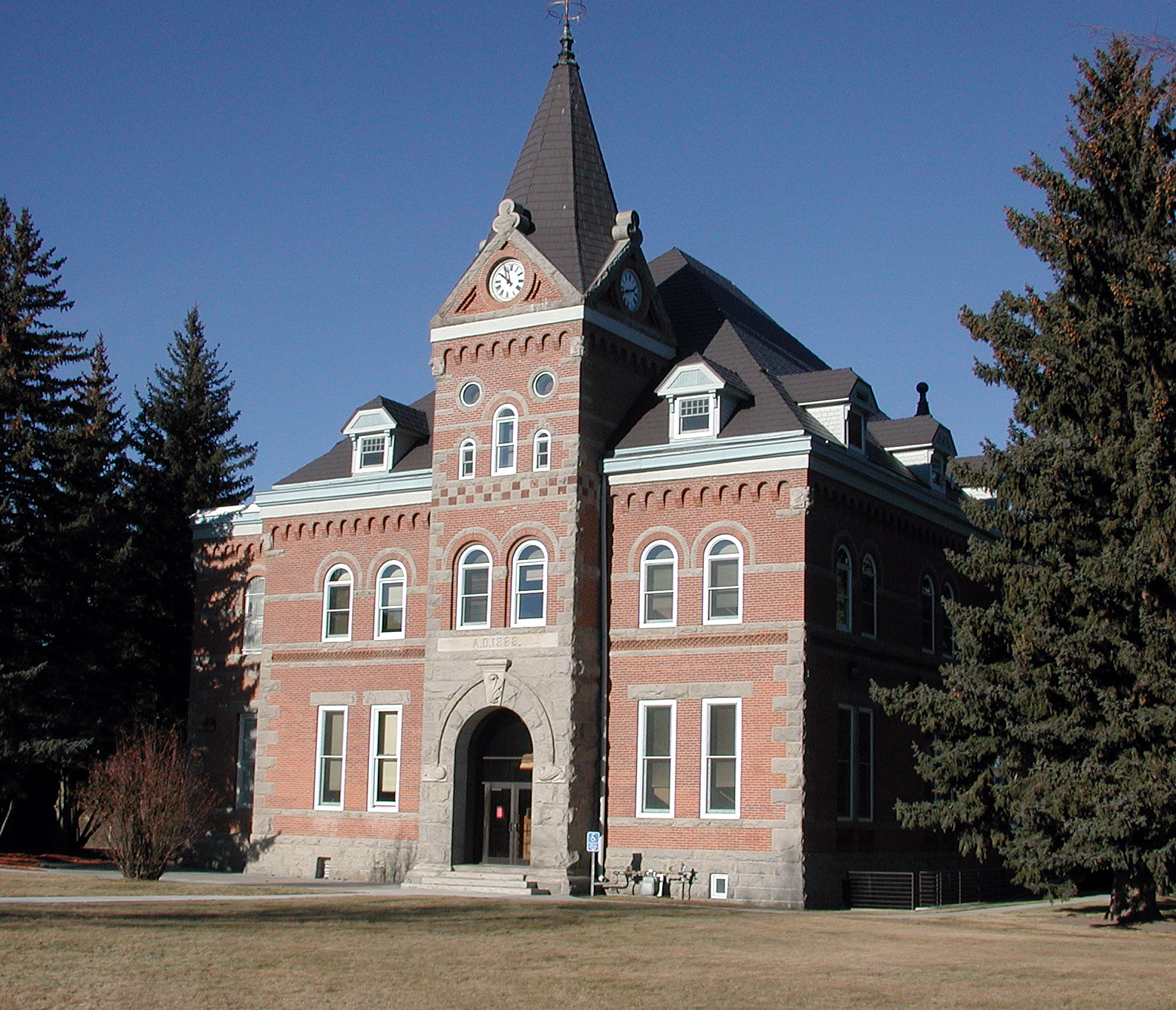 Jefferson County Courthouse in Boulder, Montana. It was added to the National Register of Historic Places as Building #80002422 in 1980.